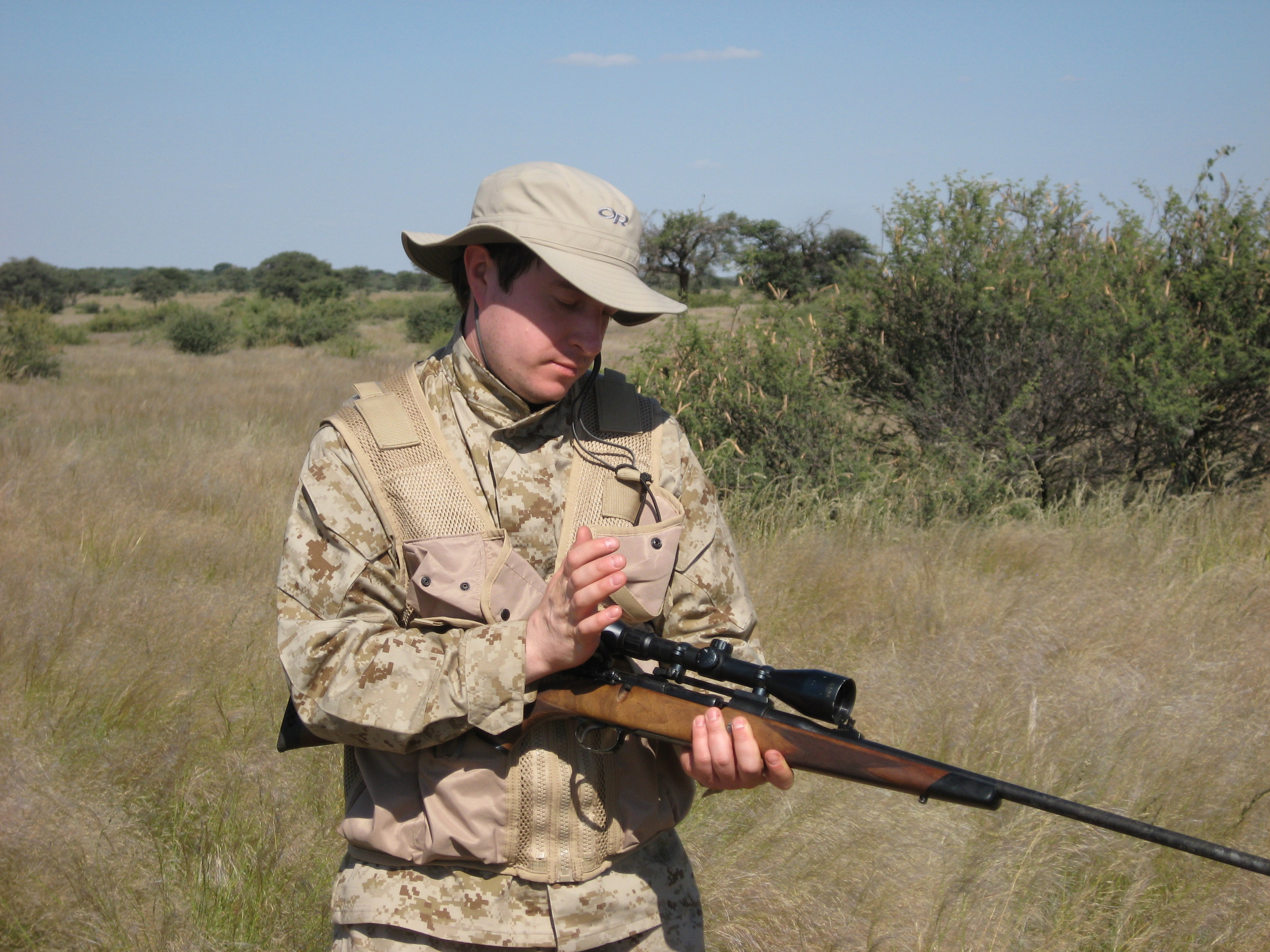 Safari Hunter in Namibia